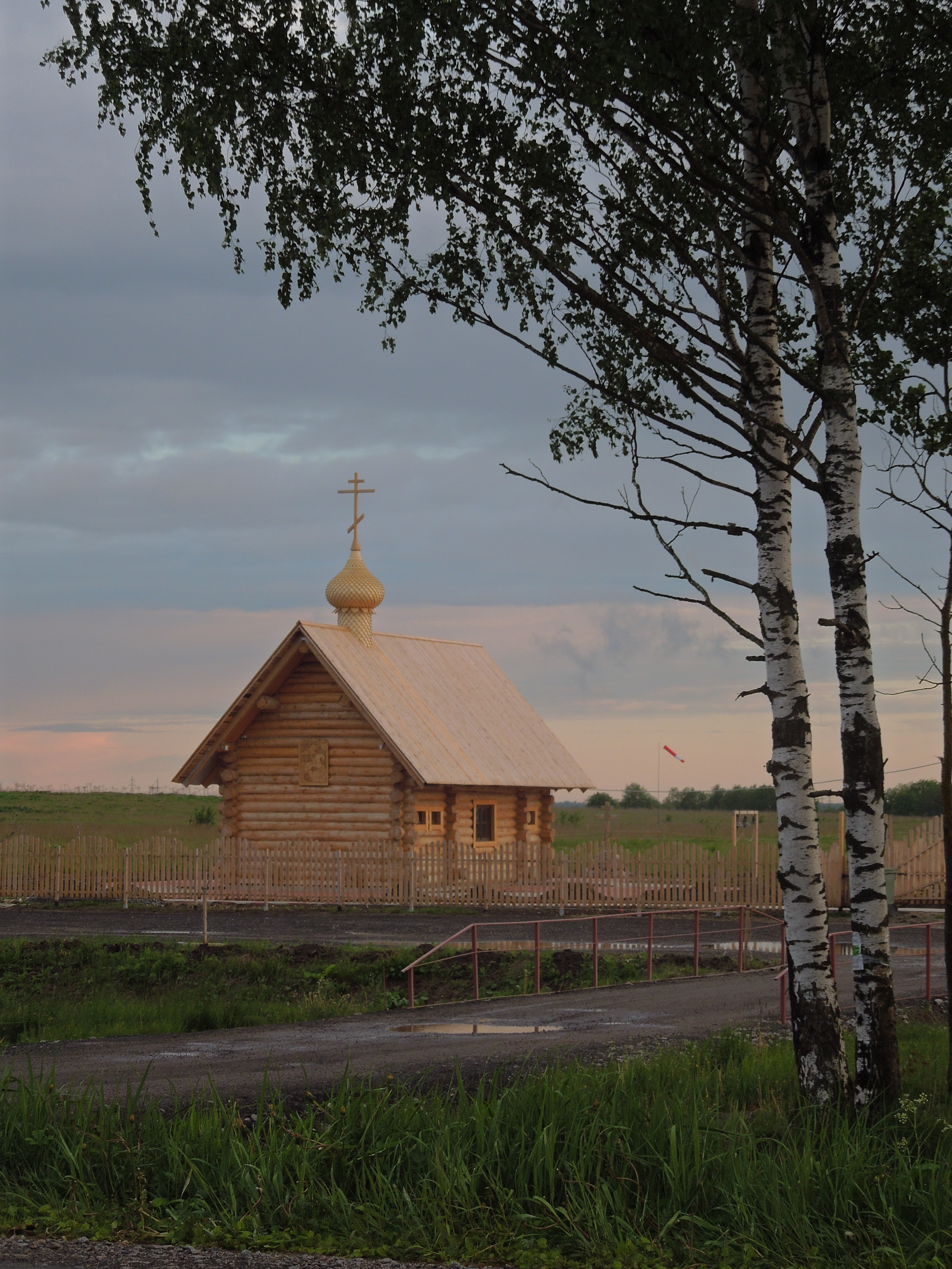 Saint George church. Glinki (Tosno district)